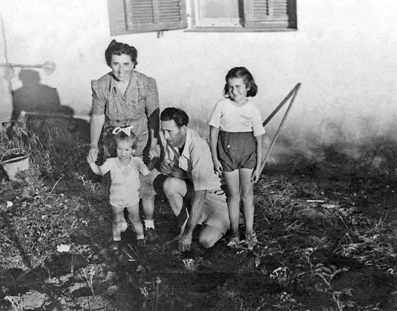 Family picture, Settlements in Israel